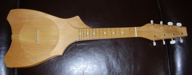 Picture of the front side of a Tahitian ukulele.